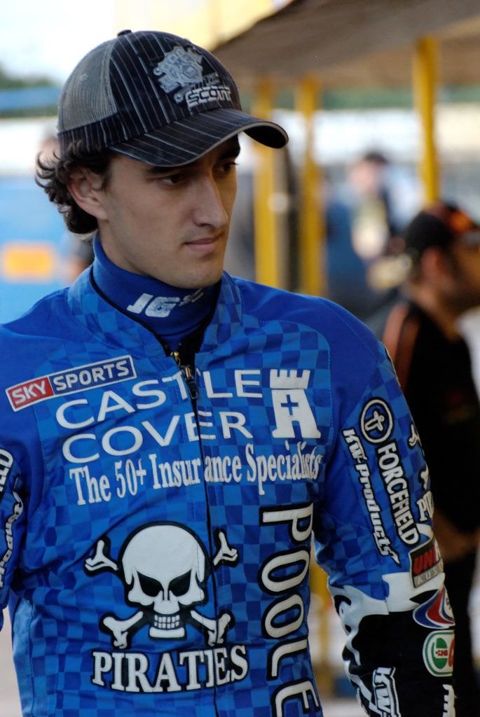 Chris Holder, Australian speedway rider. Photo was taken on 23rd August 2008 at the Arlington Stadium, where Poole beat the home team Eastbourne 41-52